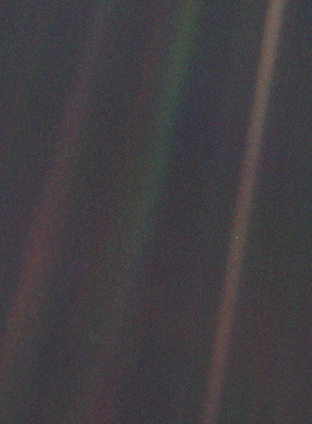 Original caption: This narrow-angle color image of the Earth, dubbed ‘Pale Blue Dot’, is a part of the first ever ‘portrait’ of the solar system taken by Voyager 1. The spacecraft acquired a total of 60 frames for a mosaic of the solar system from a distance of more than 4 billion miles from Earth and about 32 degrees above the ecliptic. From Voyager's great distance Earth is a mere point of light, less than the size of a picture element even in the narrow-angle camera. Earth was a crescent only 0.12 pixel in size. Coincidentally, Earth lies right in the center of one of the scattered light rays resulting from taking the image so close to the sun. This blown-up image of the Earth was taken through three color filters – violet, blue and green – and recombined to produce the color image. The background features in the image are artifacts resulting from the magnification.